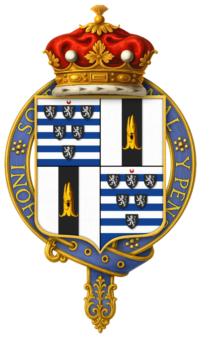 Garter-encircled shield of arms of James Gascoyne-Cecil, 4th Marquess of Salisbury, KG, as displayed on his Order of the Garter stall plate in St. George's Chapel.